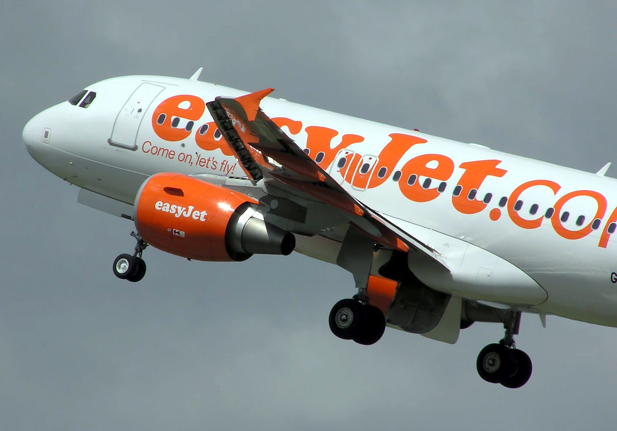 An easyJet Airbus A319 (registration unknown) takes off from Bristol International Airport, Bristol, England. Photographed by Adrian Pingstone in May 2006 and placed in the public domain.